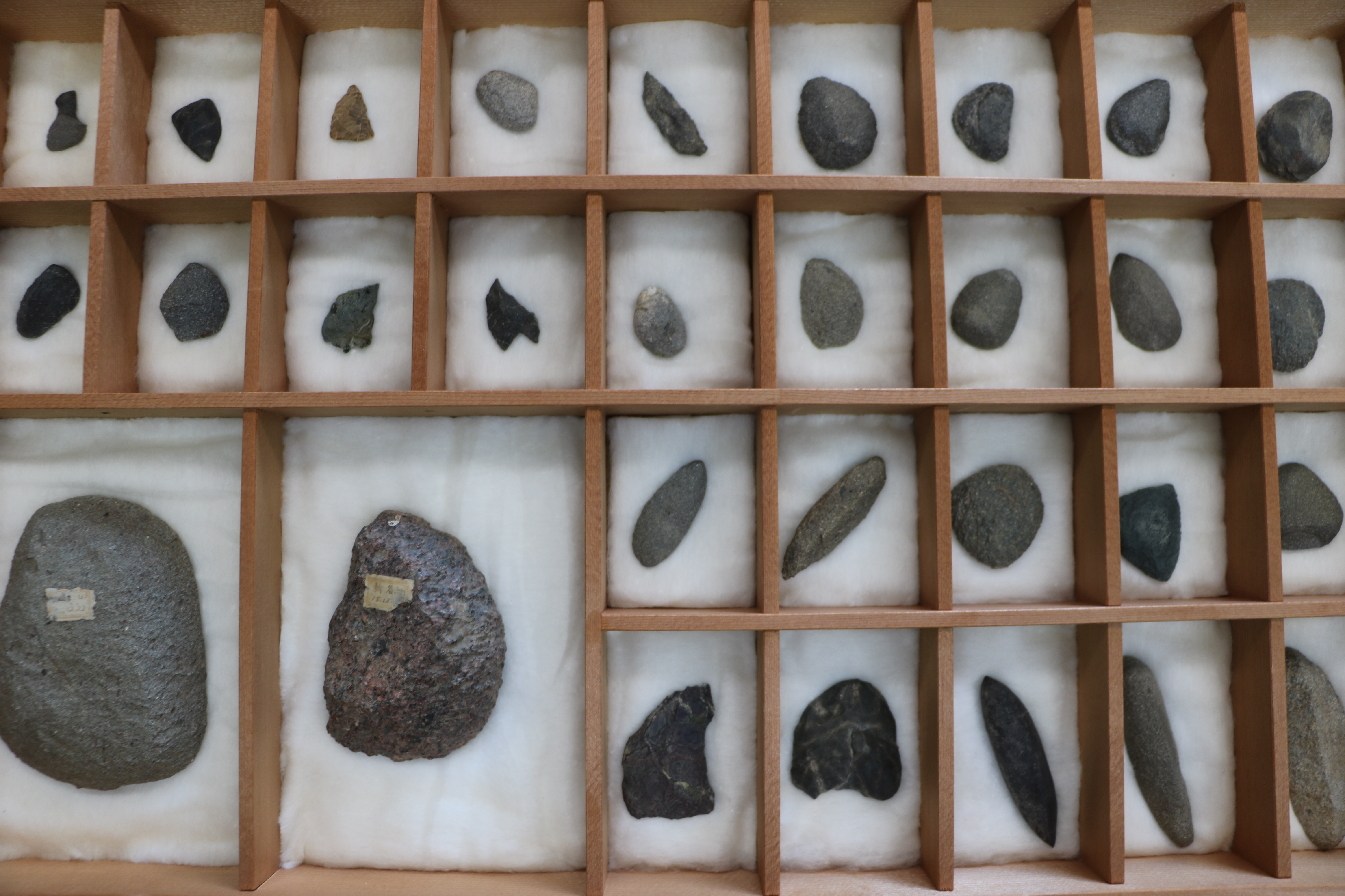 Shirowa district Dreikanter and Ventifacts production area wind erosion stone specimens collected in December 1940